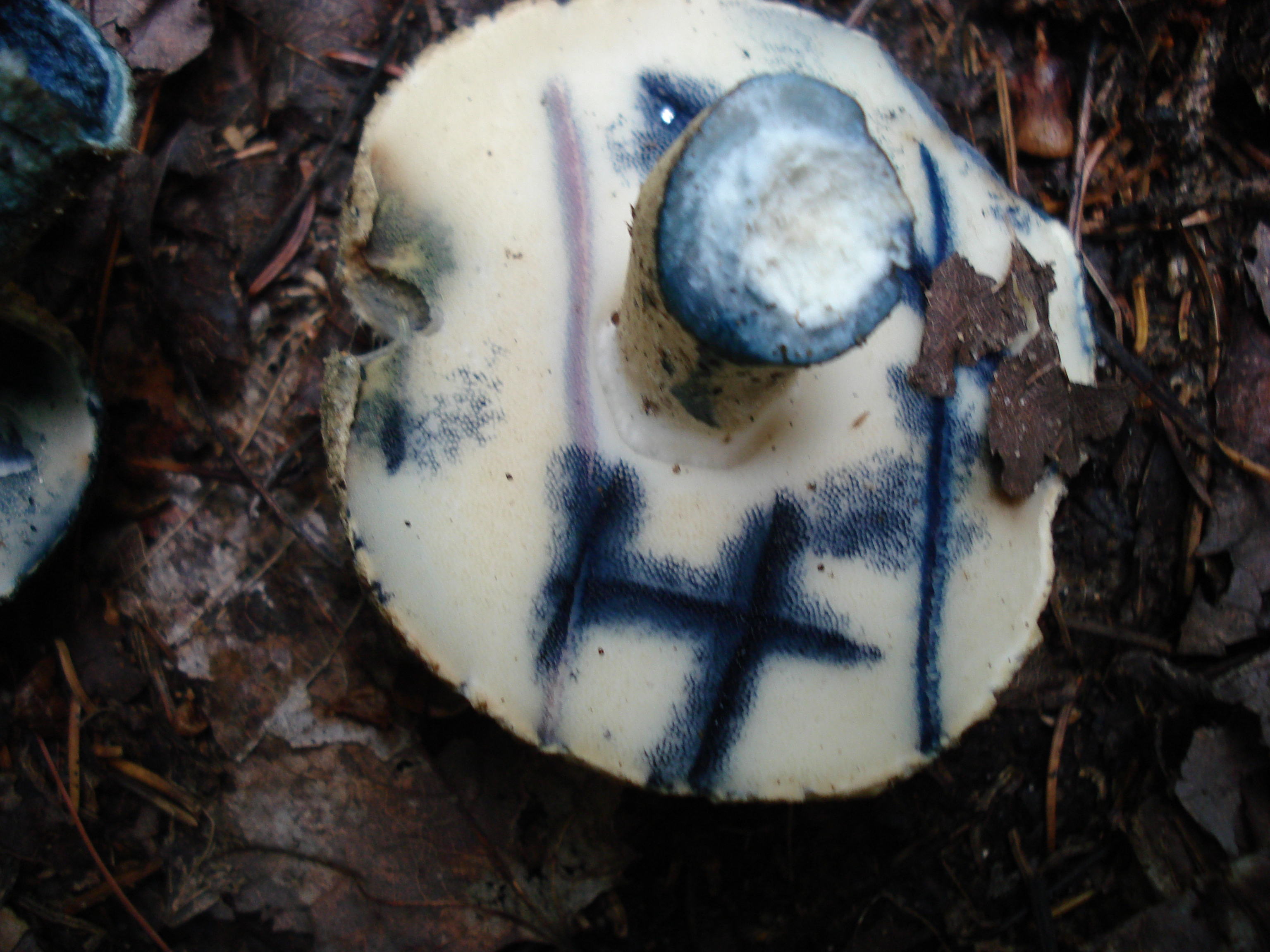 The pore surface of the cap of the bolete mushroom Gyroporus cyanescens var. violaceotinctus Watling. Specimen found near Indian Lake, Hamilton Co., New York, USA. "Notes: The brief violaceus bruising of the pore surface is so fleeting that I needed to point and click the camera very quickly after having run the knife blade over the pores. Both the violaceus and deep blue tones are seen in the first photo. The violet changes to blue."